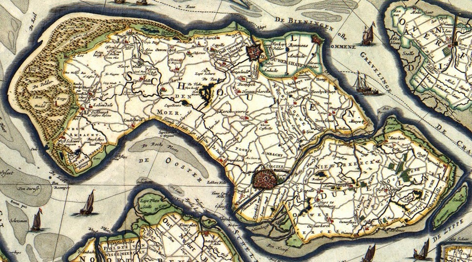 Cut out of Schouwen-Duiveland from the Comitatus Zelandiæ